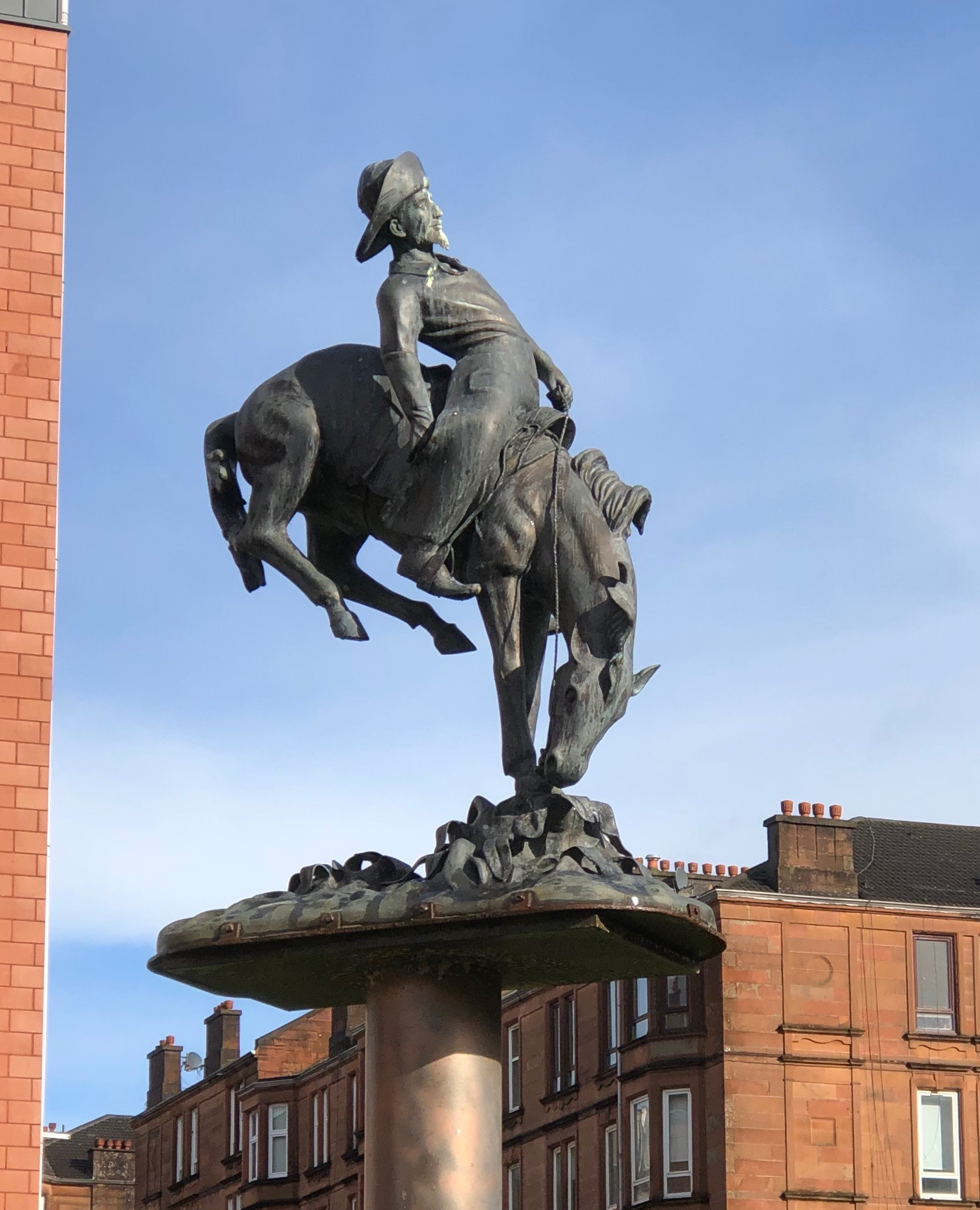 The statue in Dennistoun depicting Buffalo Bill (Colonel William F Cody) on horseback commemorates his Wild West Show which ran nearby from 16 November 1891 until 27 February 1892, in the East End Exhibition Building off Duke Street. Buffalo Bill arrived in Dennistoun with his show in October 1891. Performers included Annie Oakley and George C Crager, a Lakota Sioux interpreter, who donated or sold several objects to the Kelvingrove Museum. These included The Ghost Shirt, said to have been worn in the Wounded Knee Massacre, which was displayed there until it was returned to Wounded Knee Survivors Association in 1998. The statue was provided in 2006 by developers of the adjacent flats in Whitehill Street, and officially unveiled by MSP Paul Martin. Statue to Wild West showman Cody. BBC NEWS (17 November 2006).